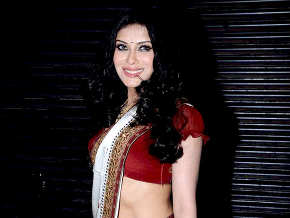 Nandana sen 2010